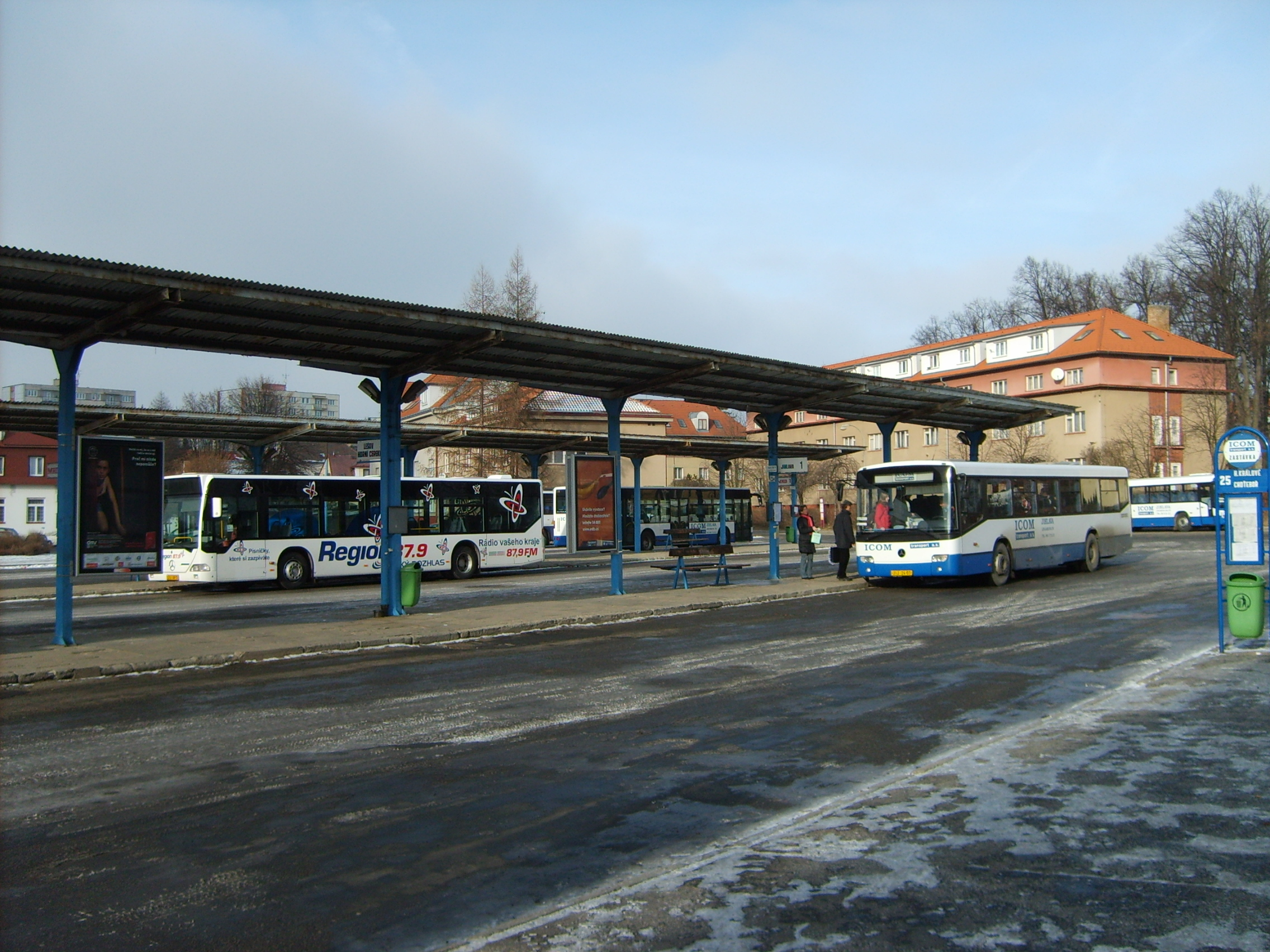 Bus station in Pelhřimov